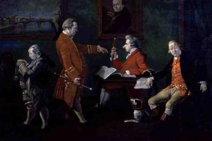 Thomas Patch "Lord William Cavendish (later 5th Duke of Devonshire), William FitzHerbert and Mr Short (the tutor)"